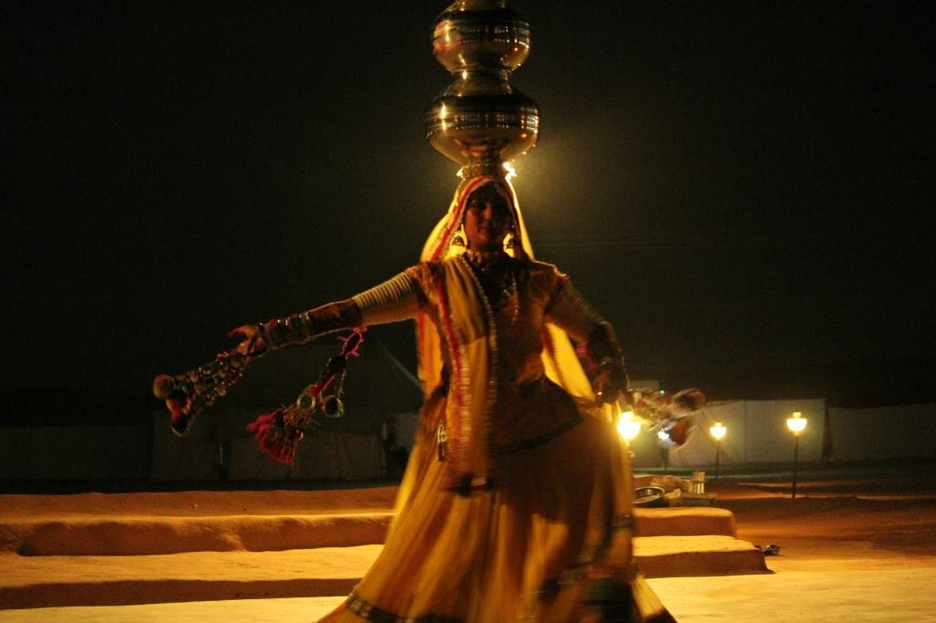 This photo has been taken in the country: India